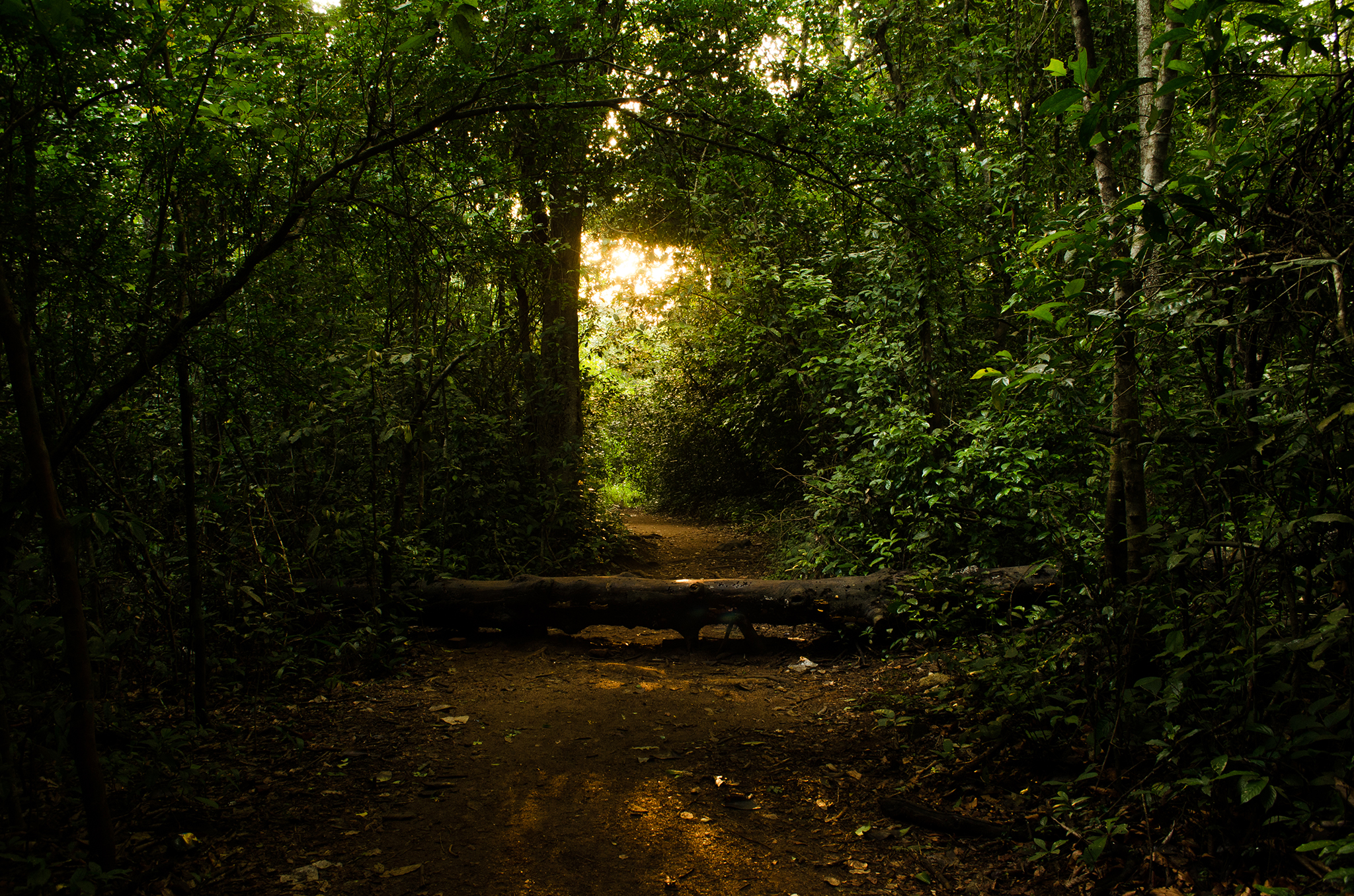 Way to the Old Bhoothathankettu Dam